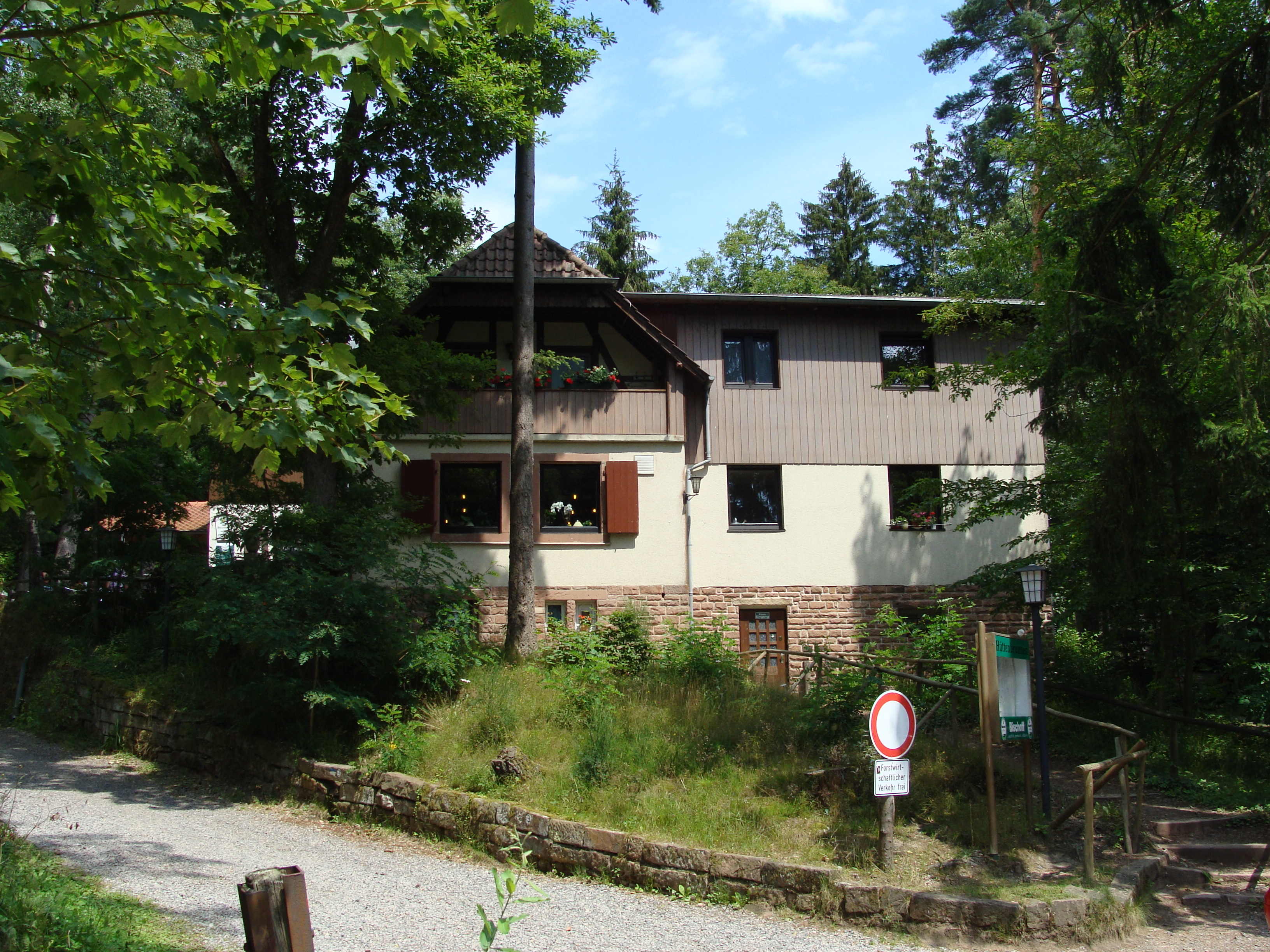 Edenkobener Hut (palatinate forest)